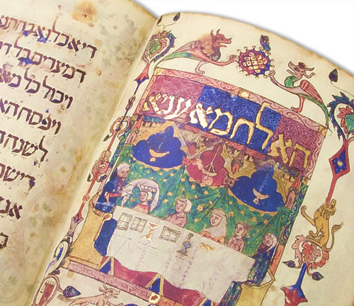 The Barcelona Haggadah Folio 28v29r.